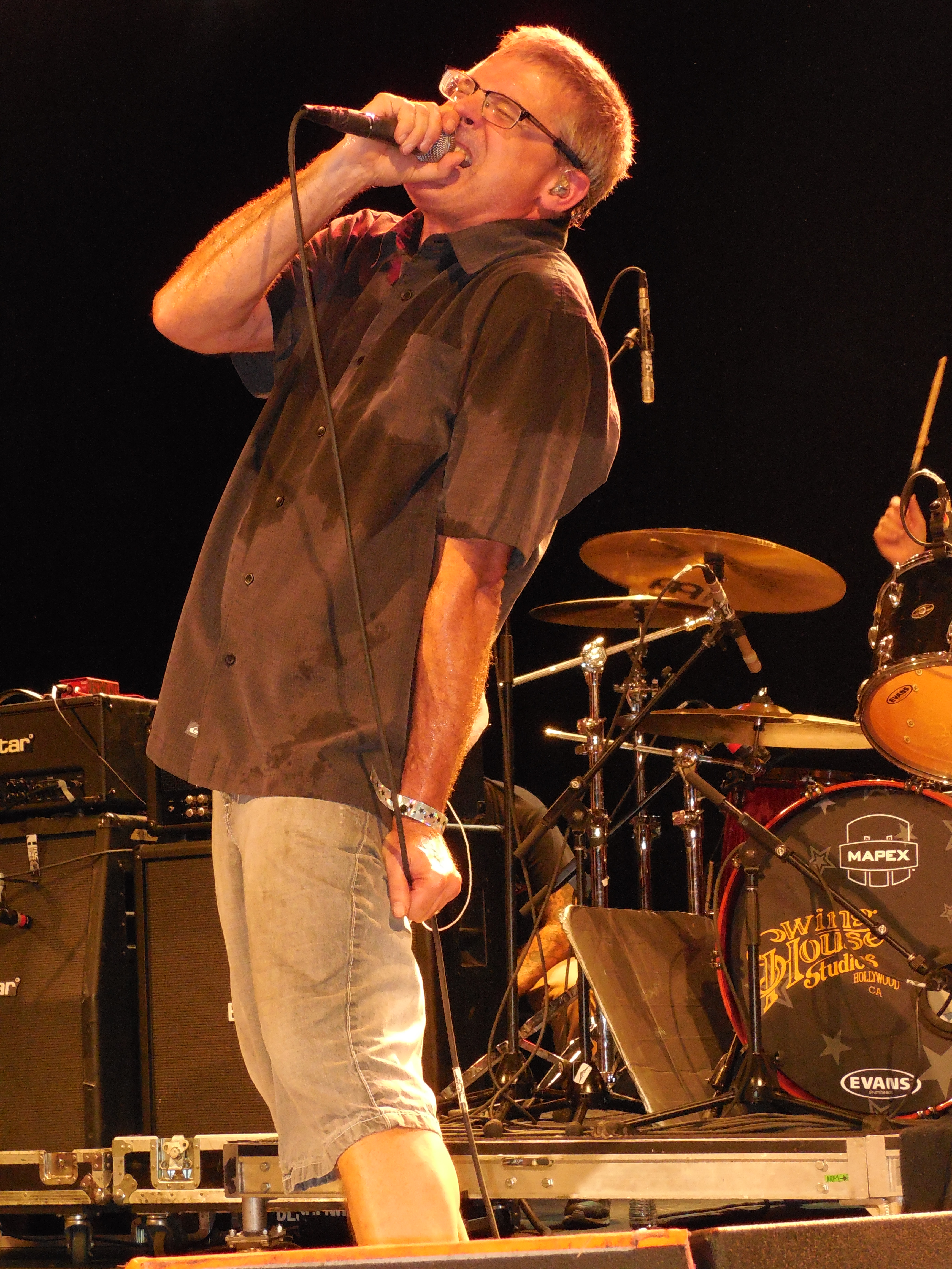 Singer Milo Aukerman of the Descendents performing at the Fox Theater in Pomona, California on September 28, 2014.